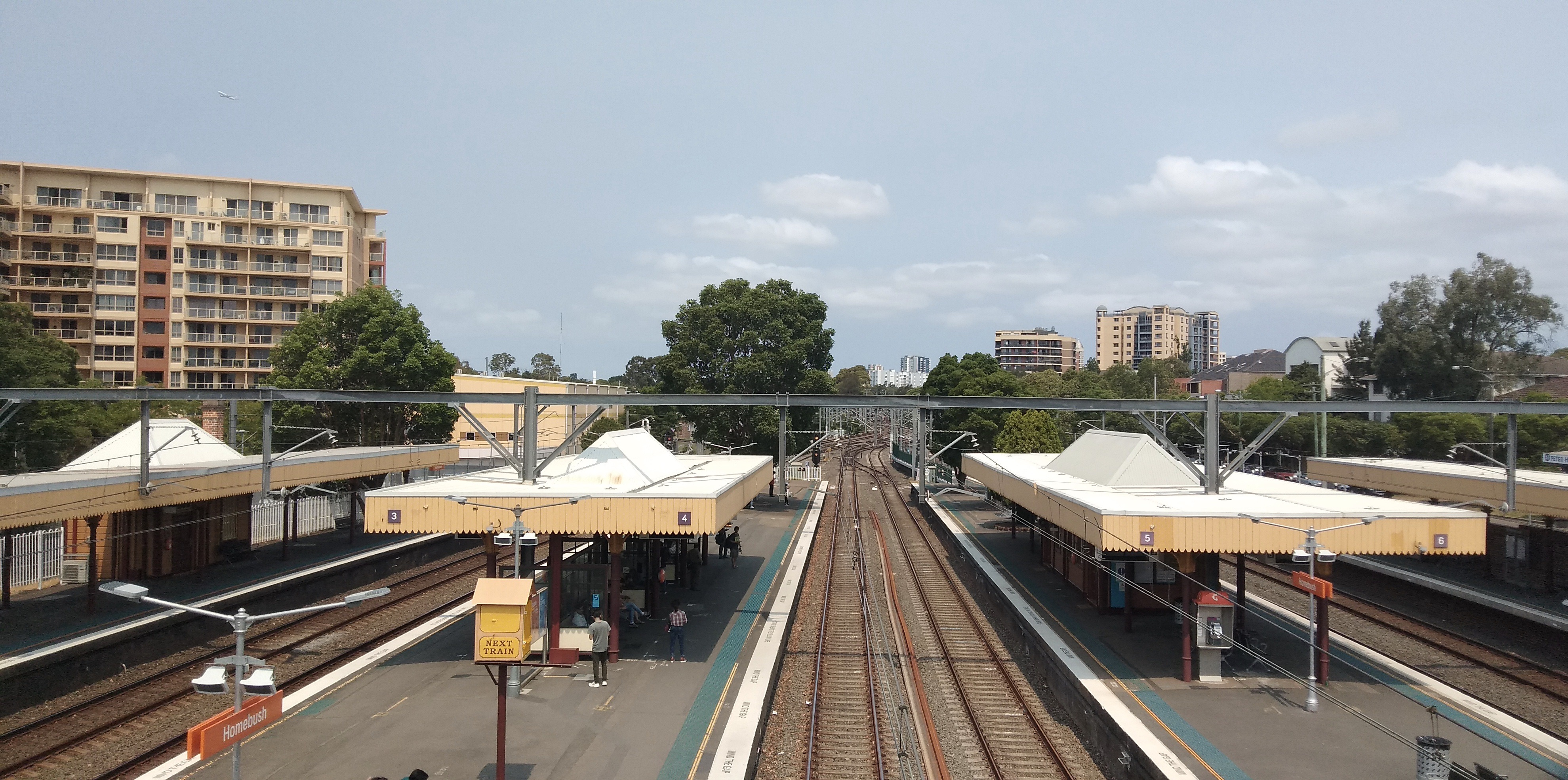 Homebush railway station, viewed from the footbridge linking the platforms